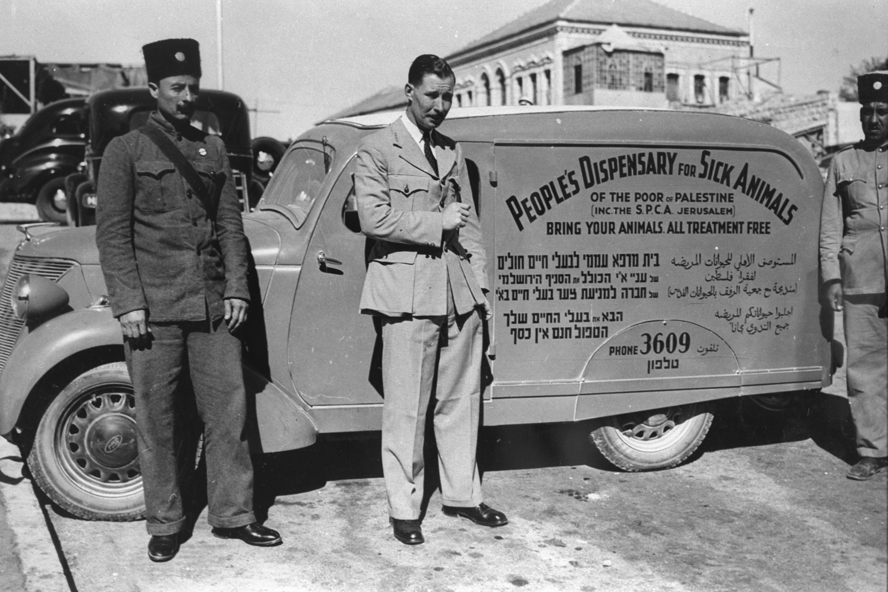 BRITISH OFFICER EDWARD J. LEWIS, AND LOCAL POLICE WAIT TO ENTER THE OLD CITY OF JERUSALEM AFTER THE LIFTING OF THE CURFEW, WITH THE PEOPLE'S DISPENSARY FOR SICK ANIMALS.